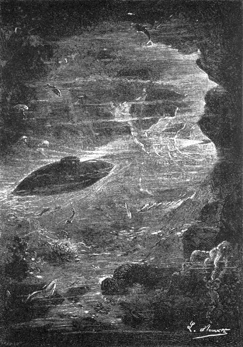 An illustration from Jules Verne's novel "Facing the Flag" (or "For the Flag").